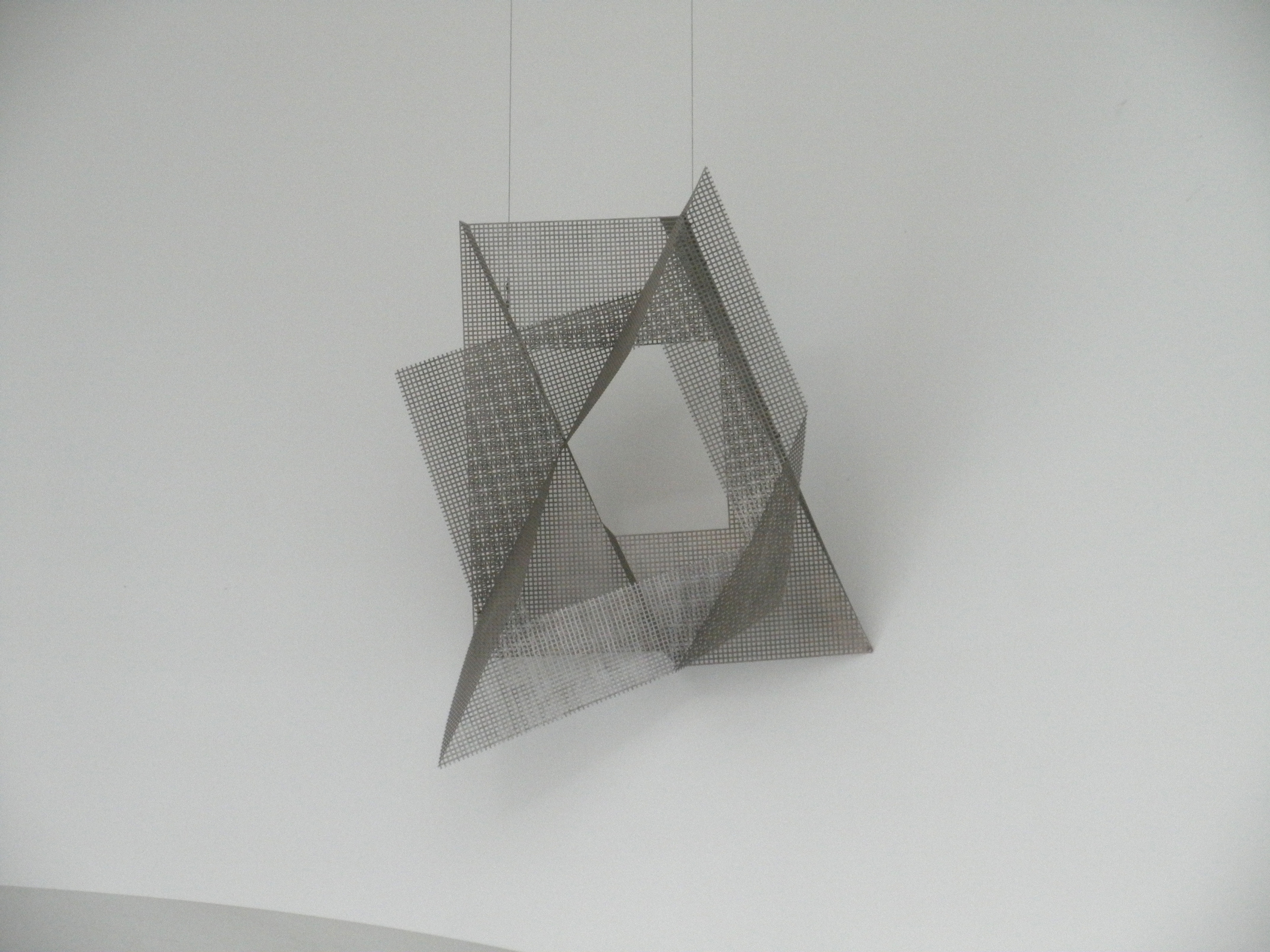 Sculpture The Nest by Dalibor Chatrný in the main entrance of the Morphology Centre of Medical Faculty in Masaryk University Campus, Brno, Czech Republic.